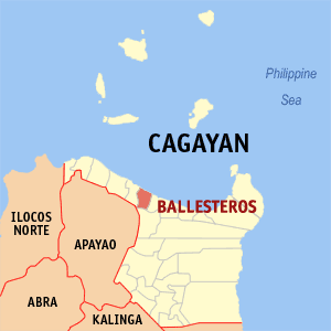 Map of Cagayan showing the location of Ballesteros